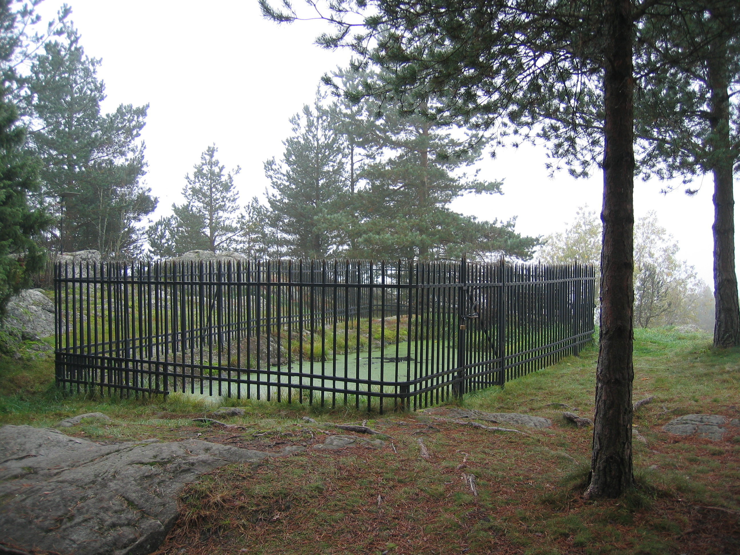 The spring of St. Olav, on the Hammerberget rock near Lørenskog church, never runs dry - even during long spells of draught. Today the spring is a national cultural heritage protected by law.